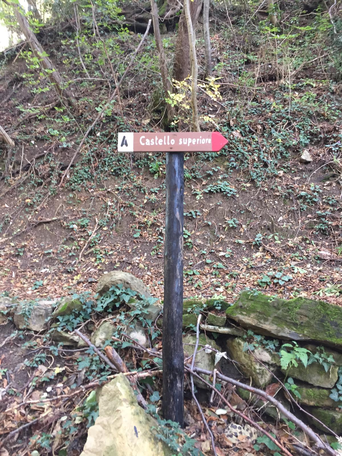 Attimis Sup